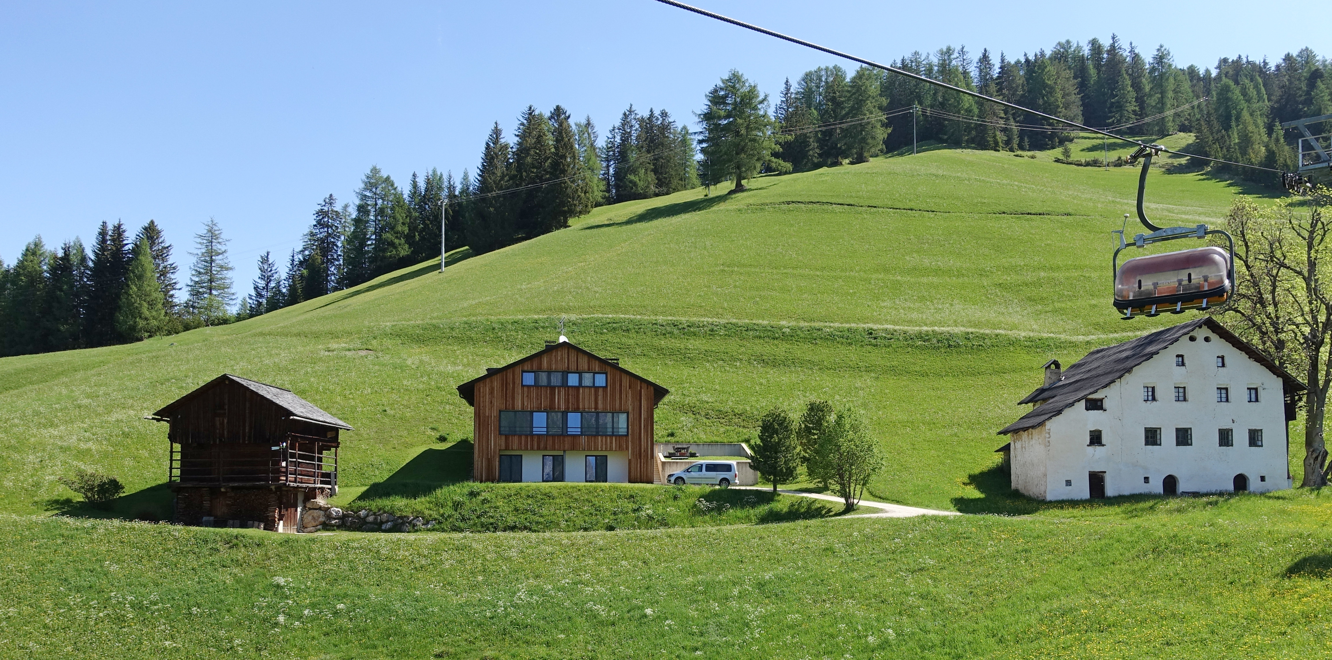 Badia, Italy.